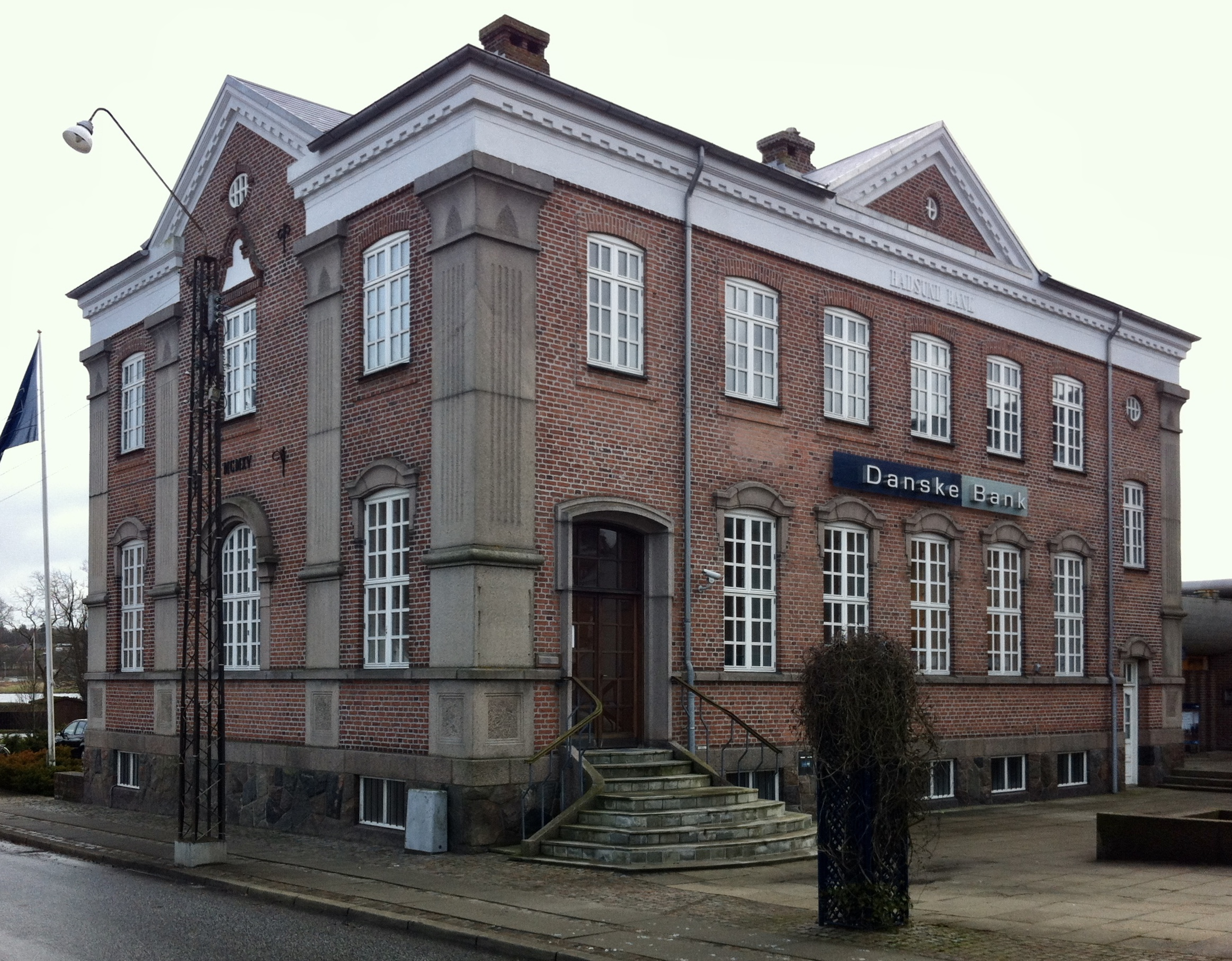 Hadsund Bank's building is a historic building built in 1915. Buildings are one of Hadsund's most beautiful buildings. Hadsund Bank went bankrupt in 1931, but has since been banking in the building of Hadsund Bank was taken over by Aalborg Diskontobank. 1968 merged Hadsund department with Aalborg Diskontobank into the Provincial Bank. In 1990, Provincial Bank in Danish Bank, which still hold to the building. The building's windows are not original.